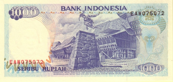 Indonesian currency issued 1976-2000.